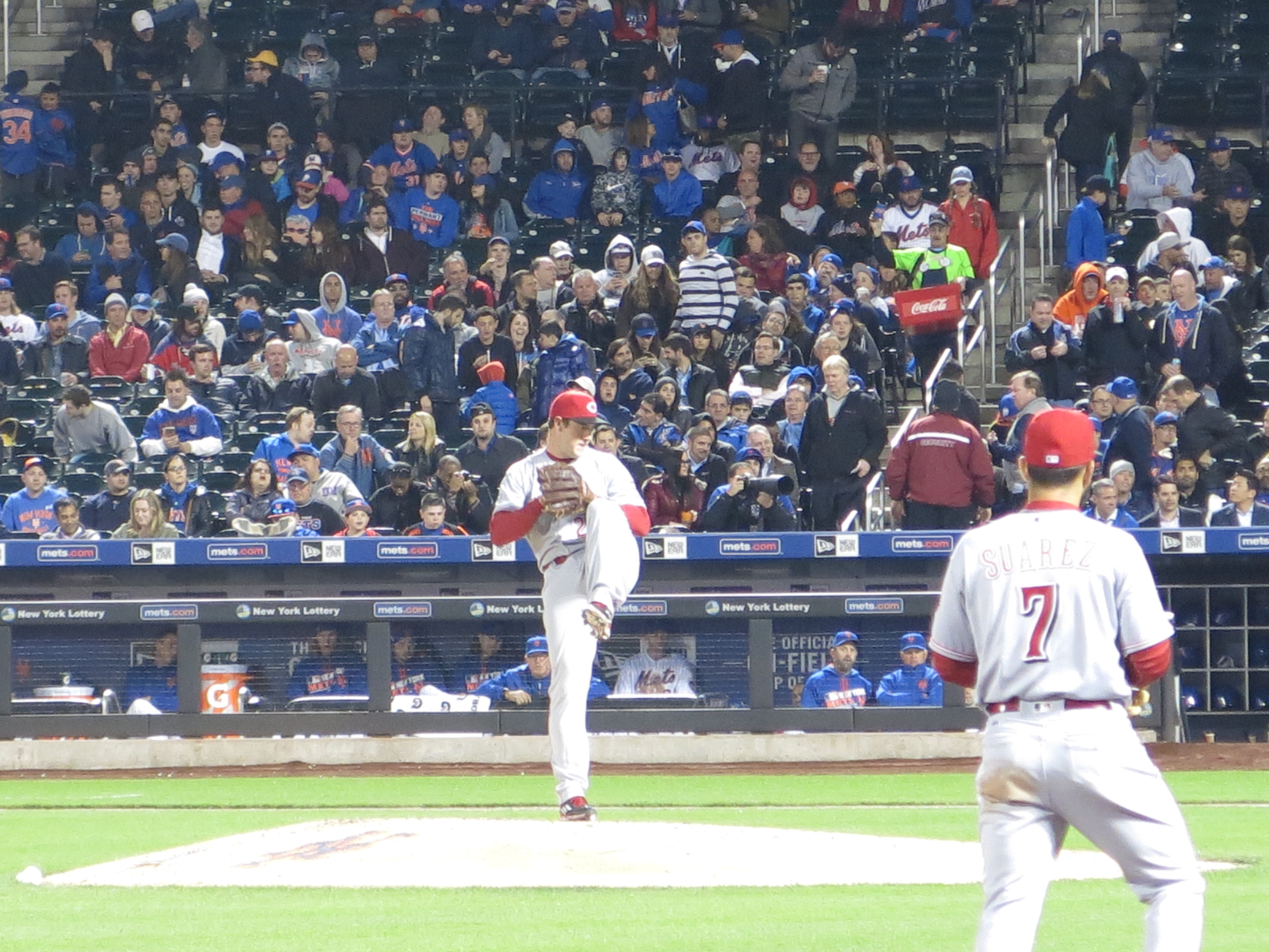 Ross Ohlendorf with the Cincinnati Reds, April 27, 2016.